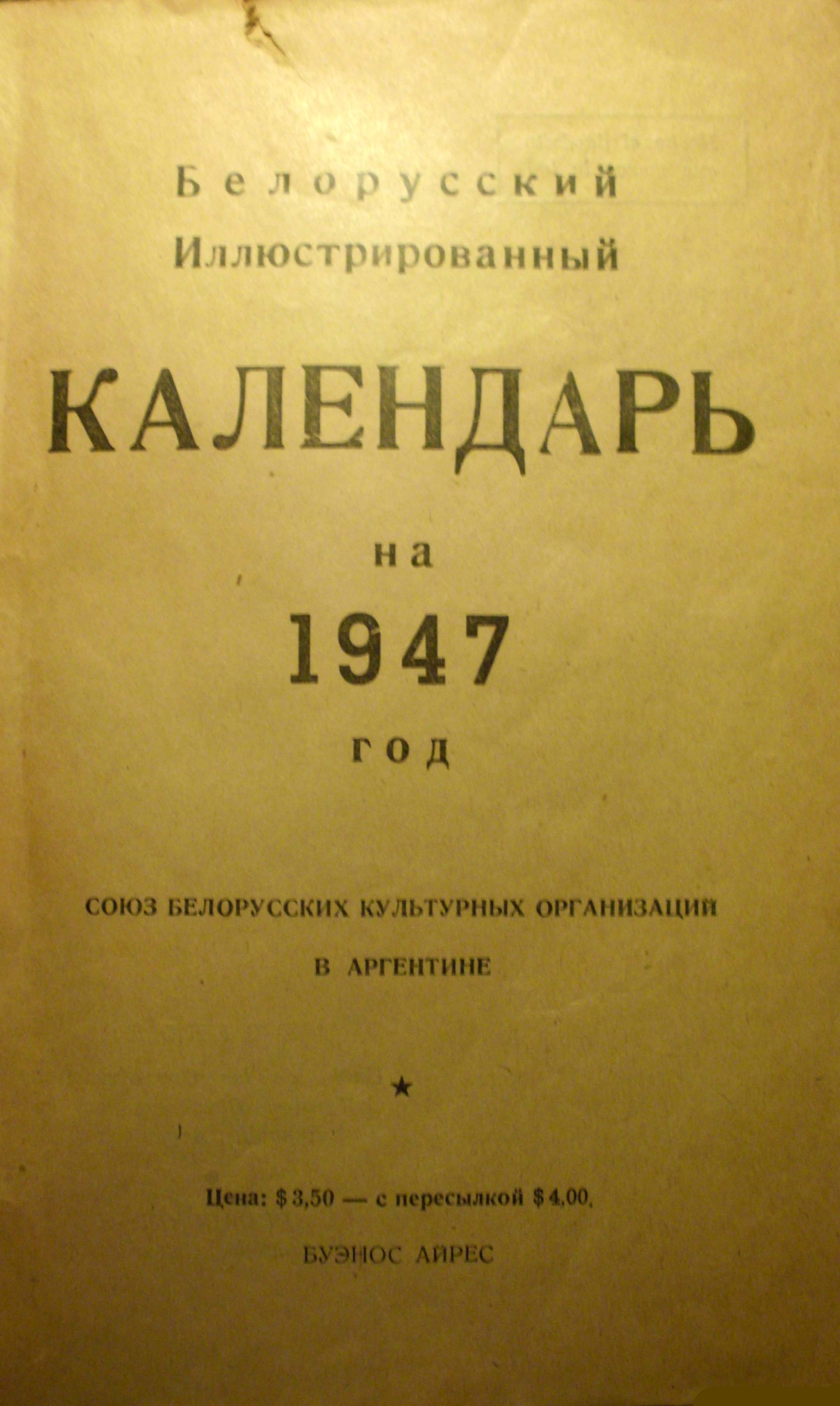 Belarusian calendar published in Buenos Aires in 1947